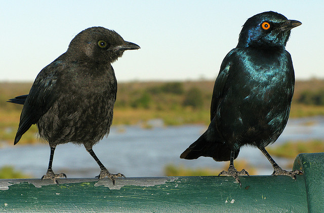 A juvenile (left, with matt plumage) and adult (right, with glossy plumage) Cape starling in the Kruger National Park, South Africa. The sighting date implies late breeding, and the adult has not completed its post-breeding molt. Eyes of juveniles start to change from grey to yellow at two months. By 6 months they have the appearance of adults.[1] ↑ (2005) Roberts Birds of Southern Africa (7th ed.), Cape Town: Trustees of the John Voelcker Bird Book Fund, pp. 963-964 ISBN: 0-620-34053-3.